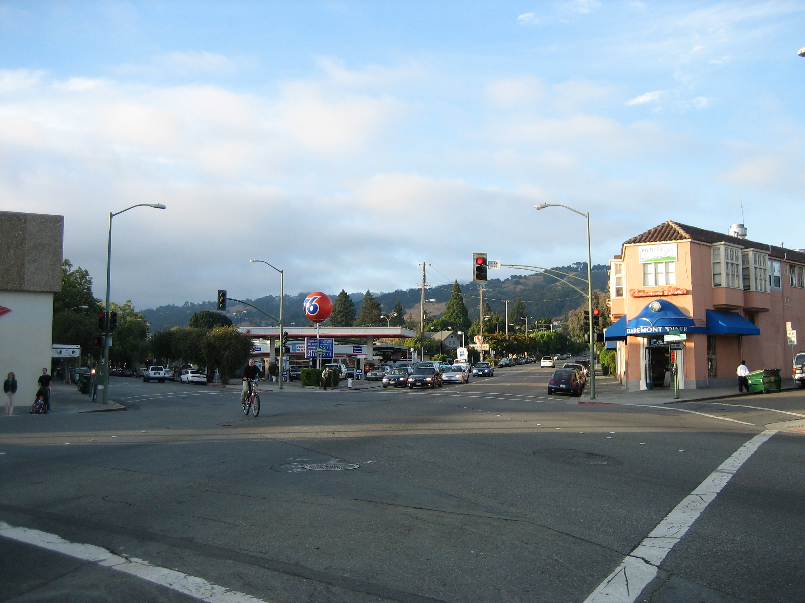 College and Claremont Avenues, in the Claremont District of Oakland/Berkeley.